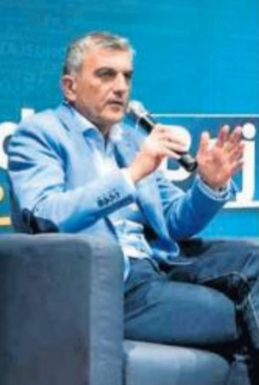 Mladen Bojanic, politician and economist speaking in Podgorica, April 2018.